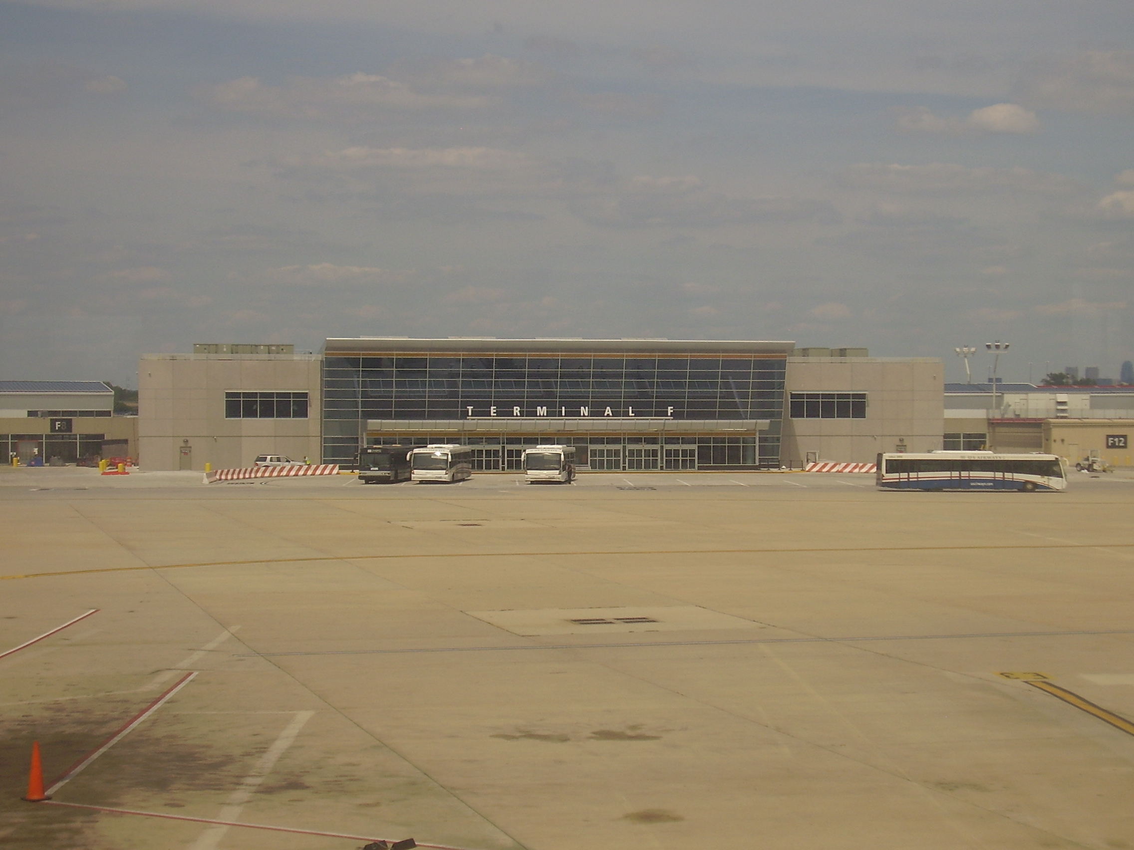 Terminal F of Philadelphia International Airport